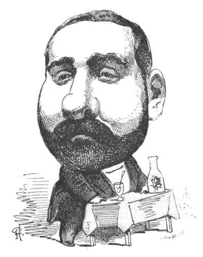 French journalist Francisque Sarcey (1827-1899) by Georges Lafosse (1844-1880)